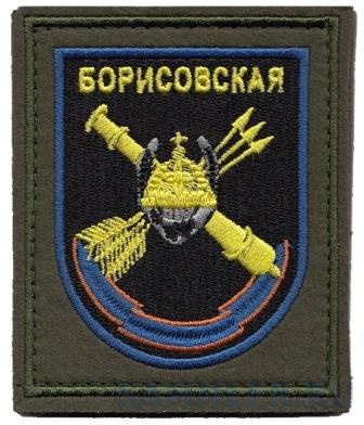 Shoulder Sleeve Insignia of the Russian 140th Anti-Aircraft Rocket Brigade